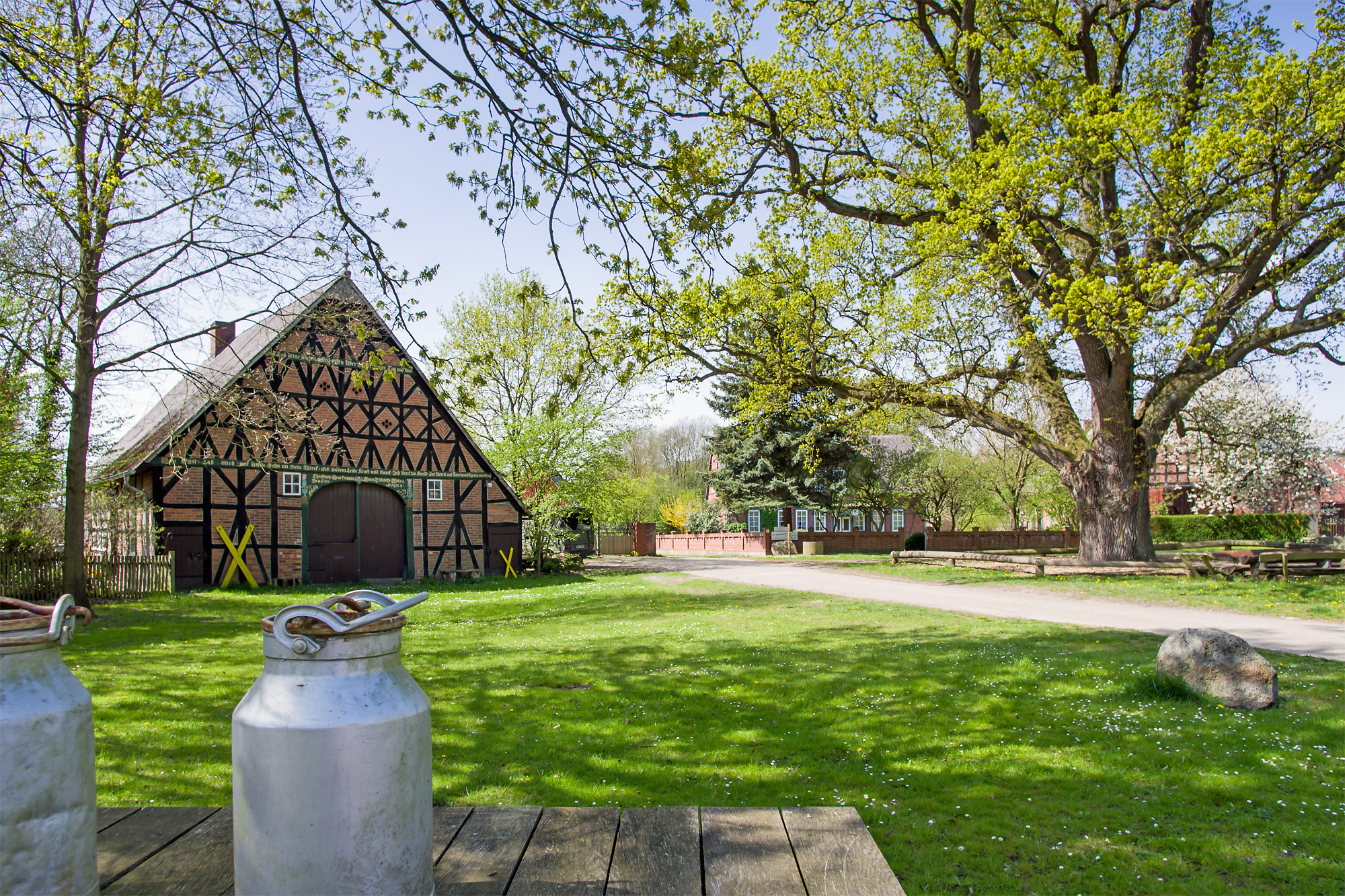 Center of the village Küsten (district Lüchow-Dannenberg, northeastern Lower Saxony, Germany), with cultural heritage monument "No. 11", a timber framed building from 1777, and even older oak.